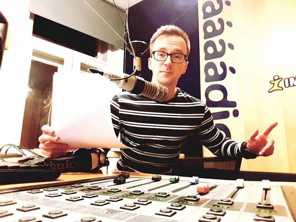 Czech journalist Vladimír Vokál